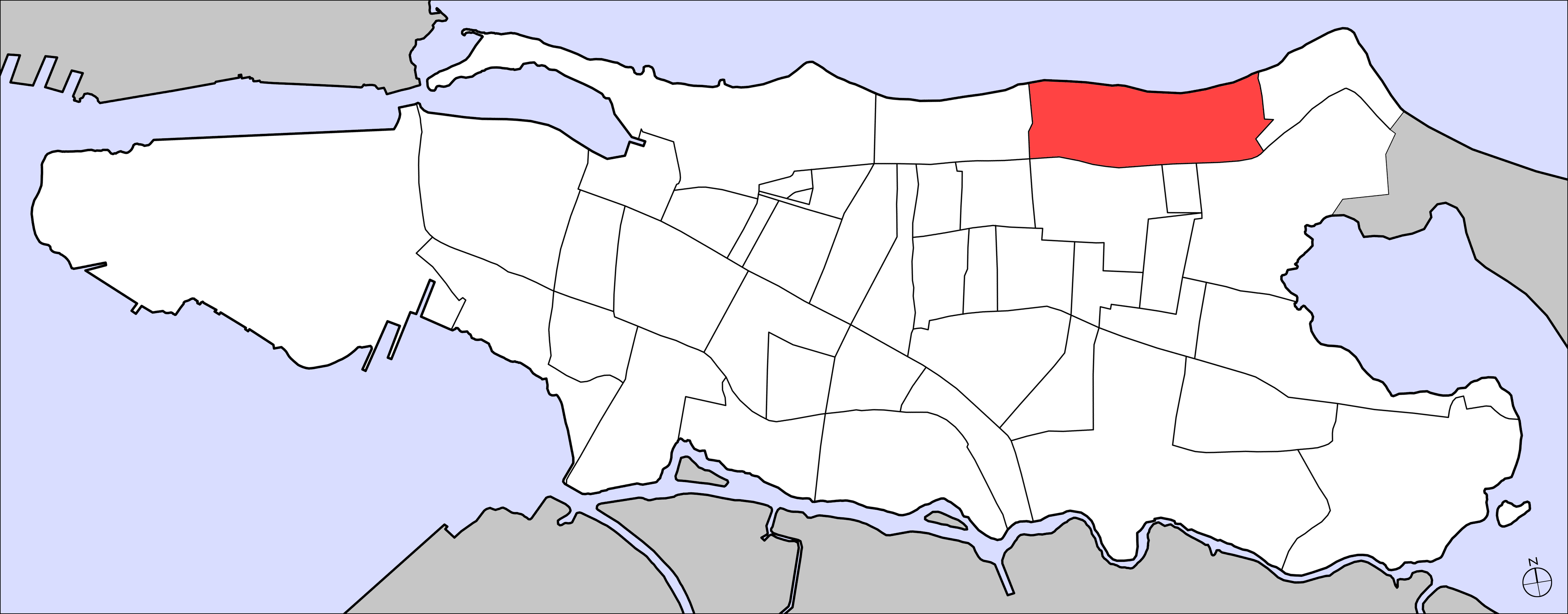 Map of Ocean Park (San Juan, Puerto Rico)